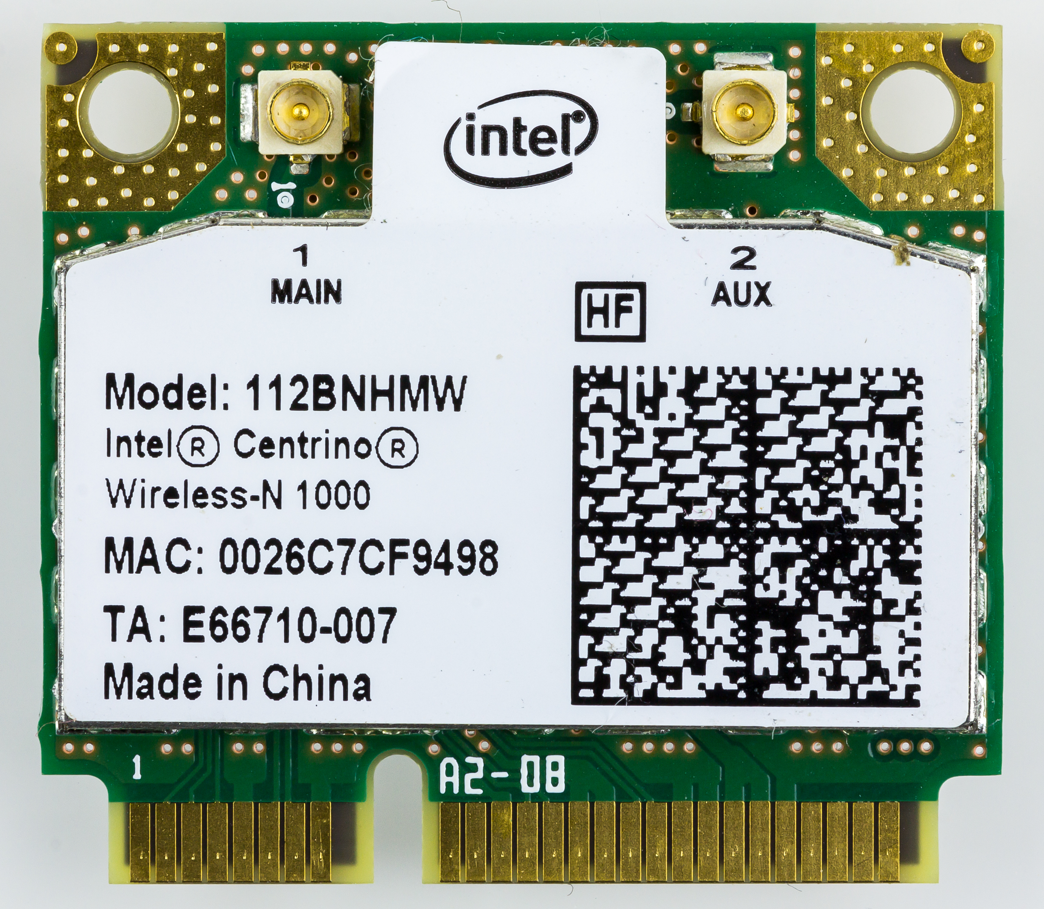 Intel Centrino Wireless-N 1000 - Model 112BNHMW. Ued in Terra Pad 1050